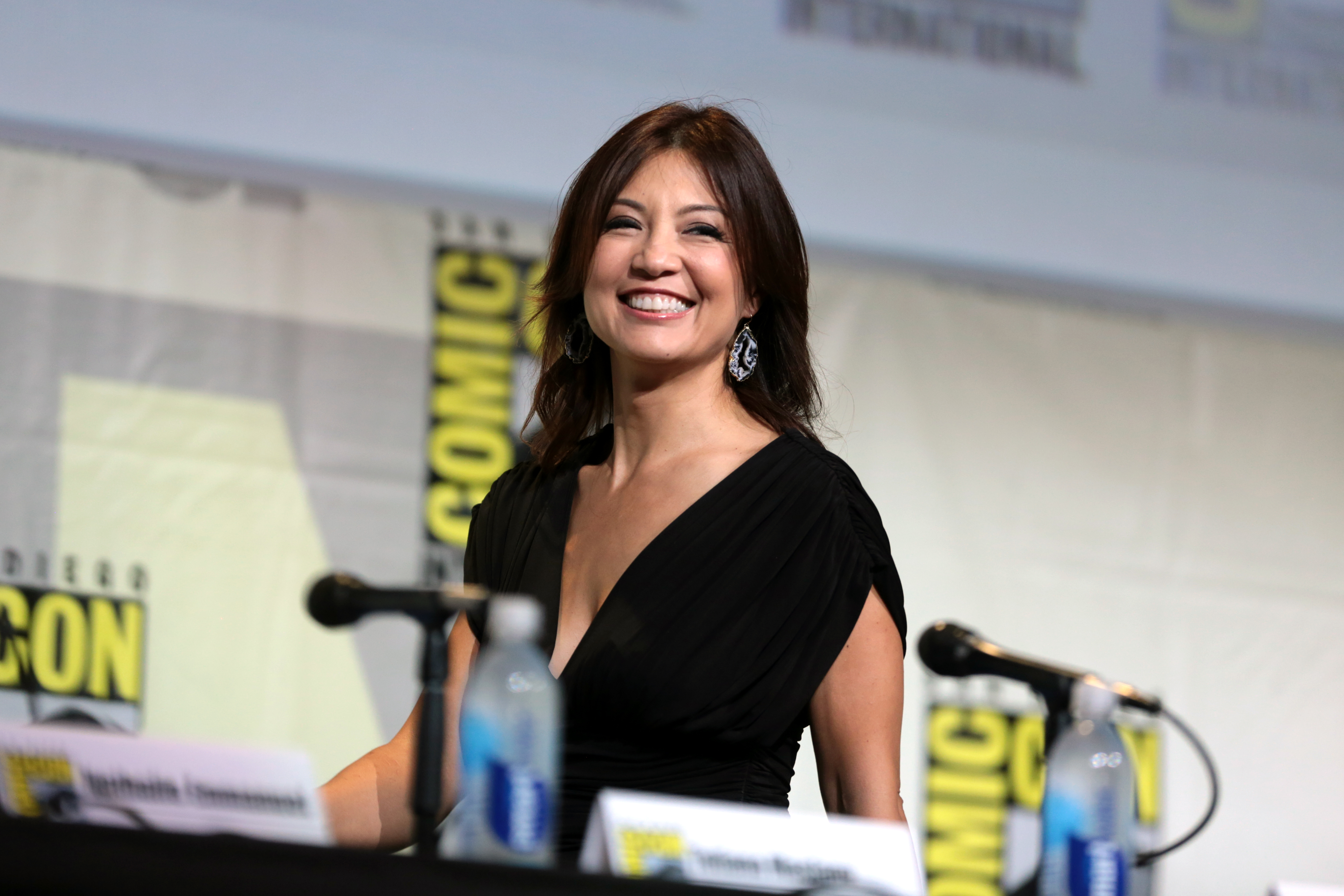 Ming-Na Wen speaking at the 2016 San Diego Comic Con International, for "Entertainment Weekly: Women Who Kick Ass", at the San Diego Convention Center in San Diego, California.